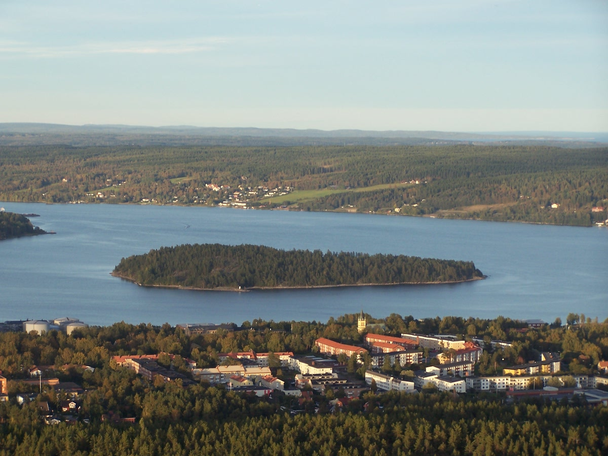 The island Tjuvholmen and Skönsmon in Sundsvall, view from Södra Berget, Sweden